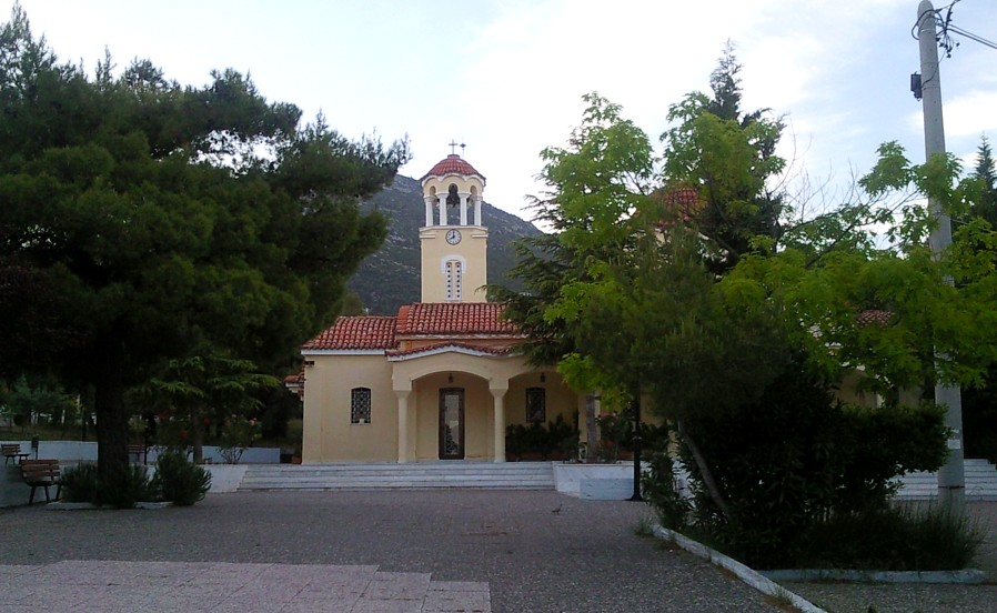 agia trias